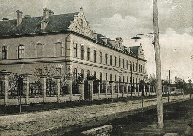 Old image of Elizabeth orphanage, in Makó, Hungary.